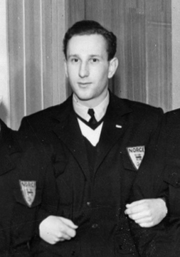 The Norwegian ski jumping team at the Olympics in St. Moritz in 1948: Arne Hoel.